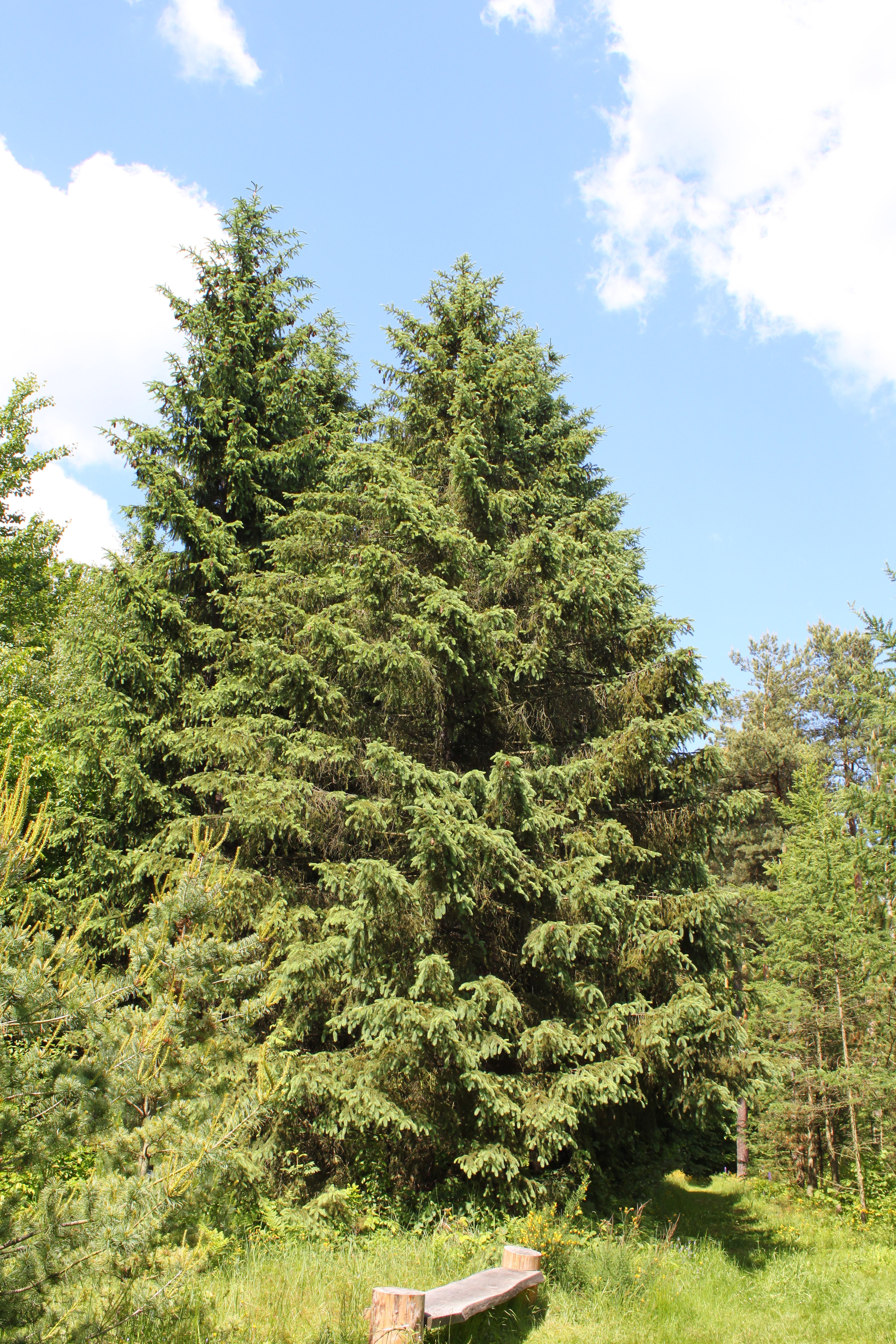 Schrenk's Spruce (Picea schrenkiana) (germination year - 1964) in Rogów Arboretum, Poland